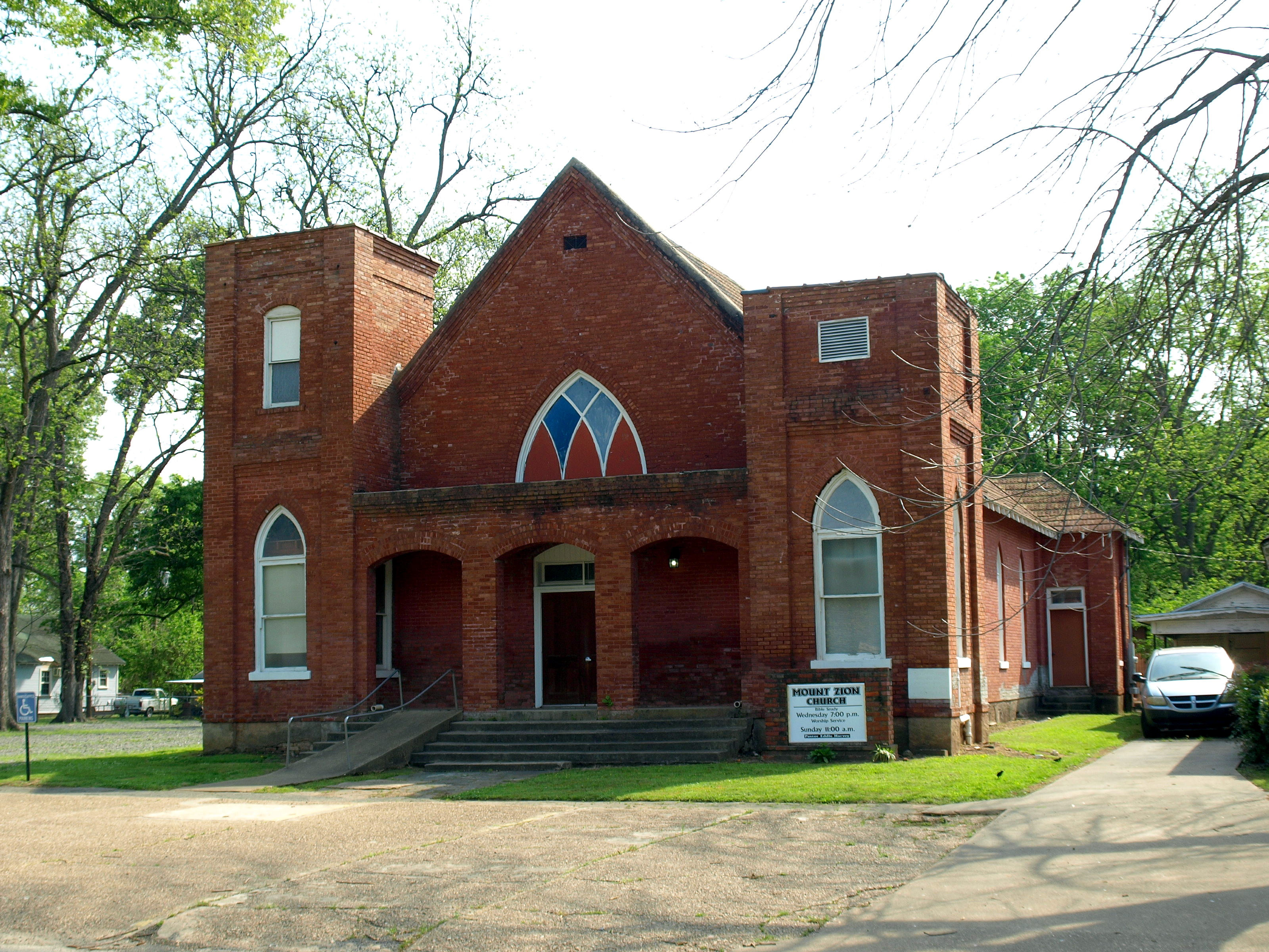 Mount Zion Missionary Baptist Church in Brinkley, Arkansas, listed on the National Register of Historic Places.